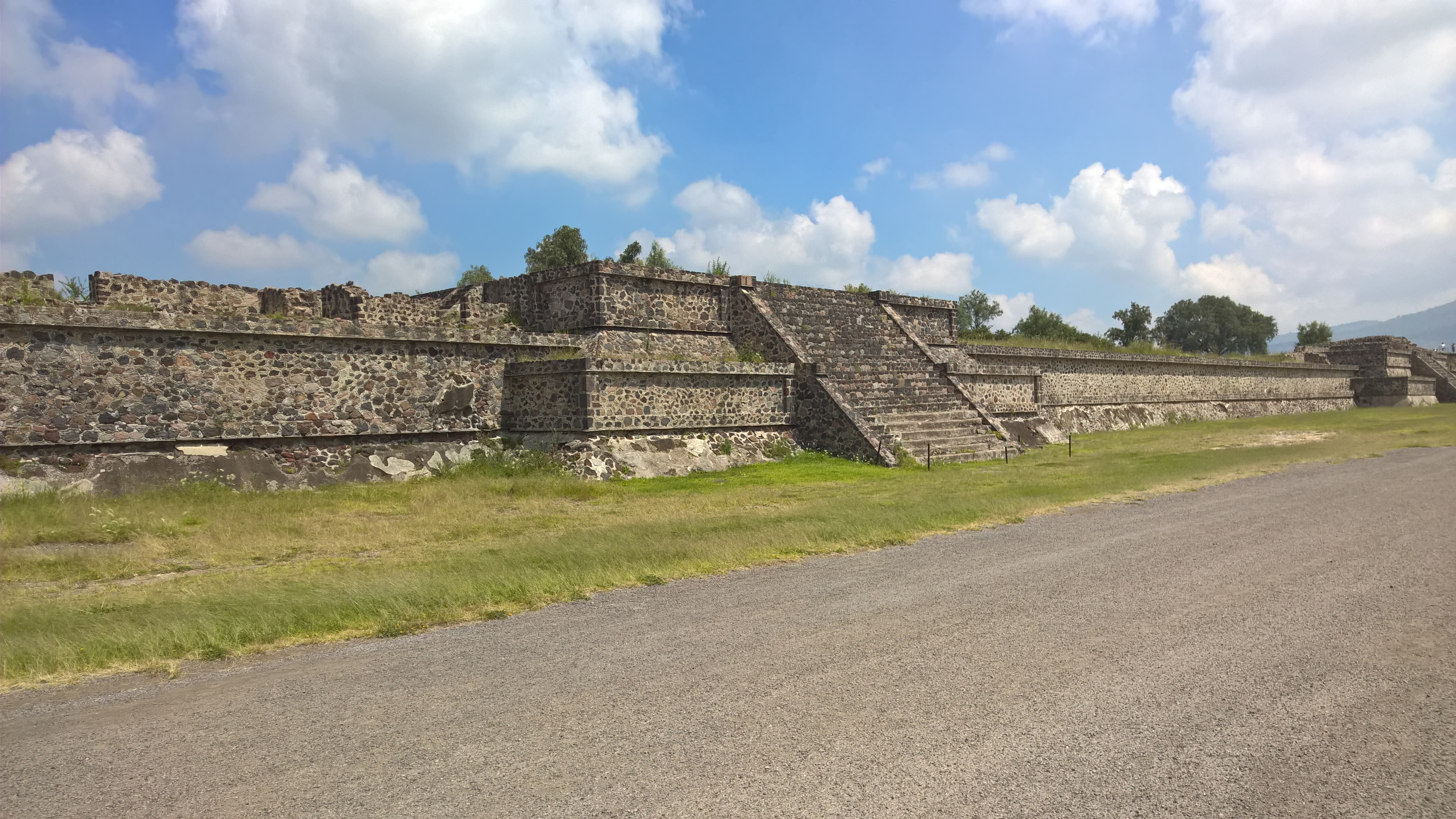 Avenue of the Dead at Teotihuacan